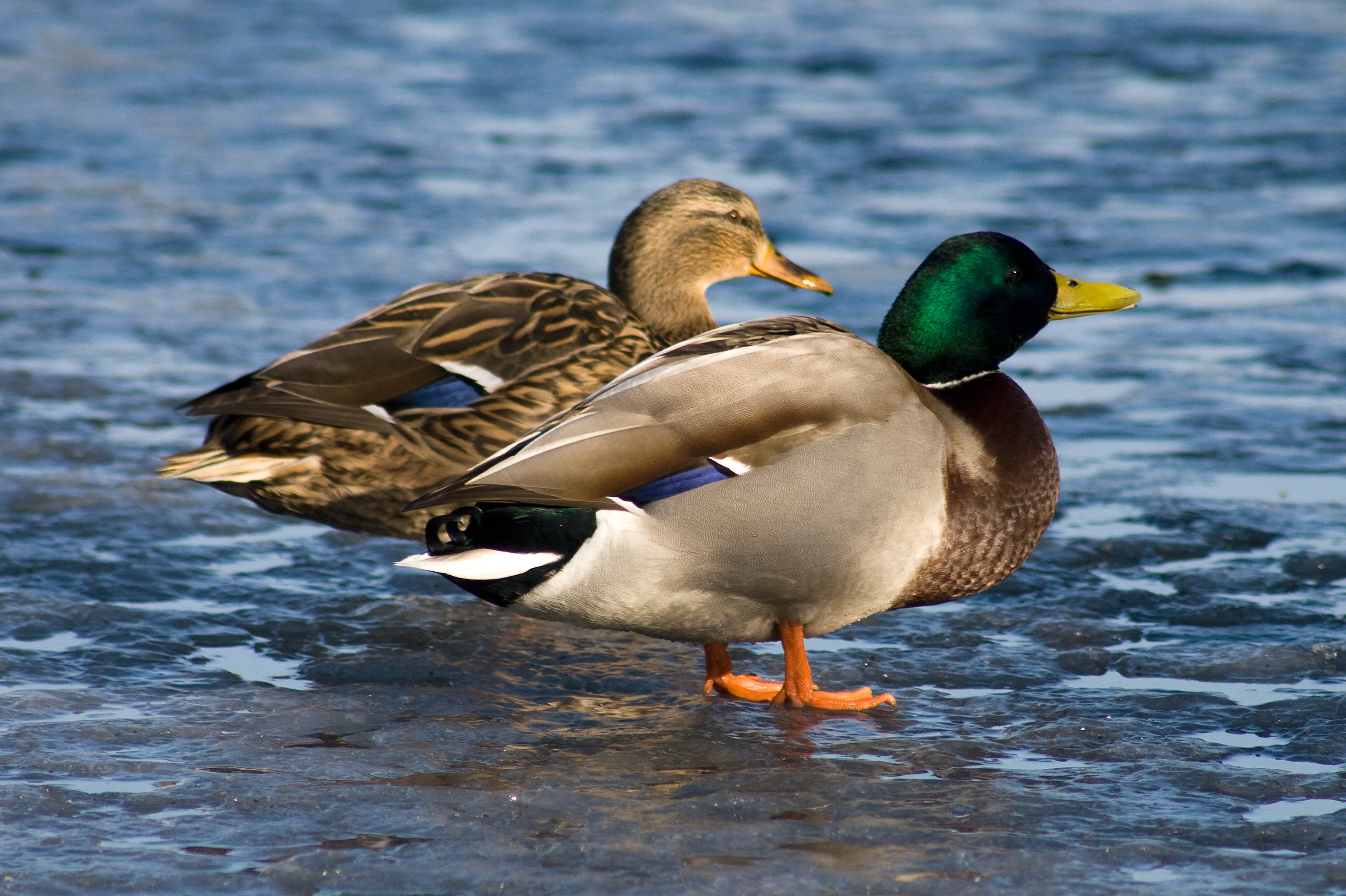 Mallard (Anas platyrhynchos) male and female